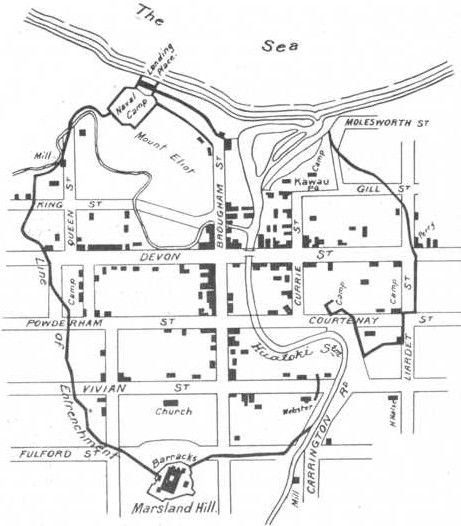 Map of New Plymouth, New Zealand, in 1860, showing line of entrenchments